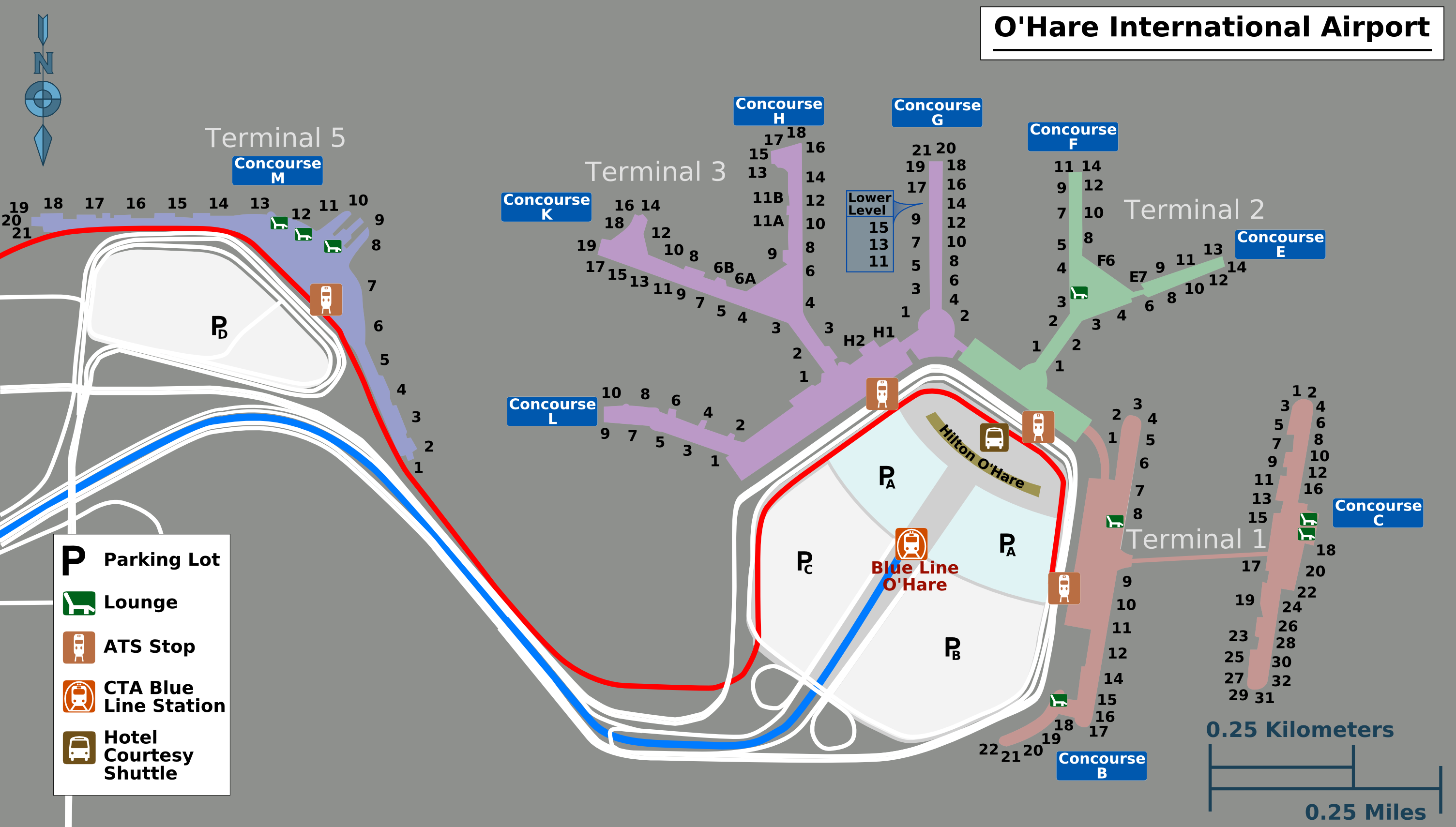 O'Hare airport map, Chicago.